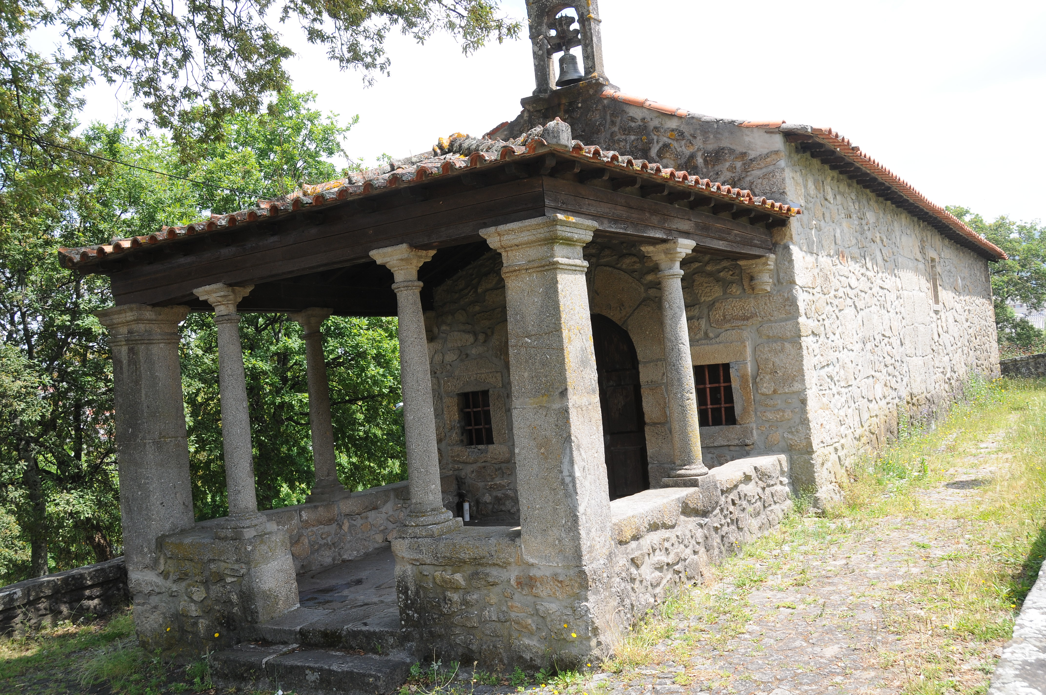 Santo Adrião Old Church in Braga Portugal